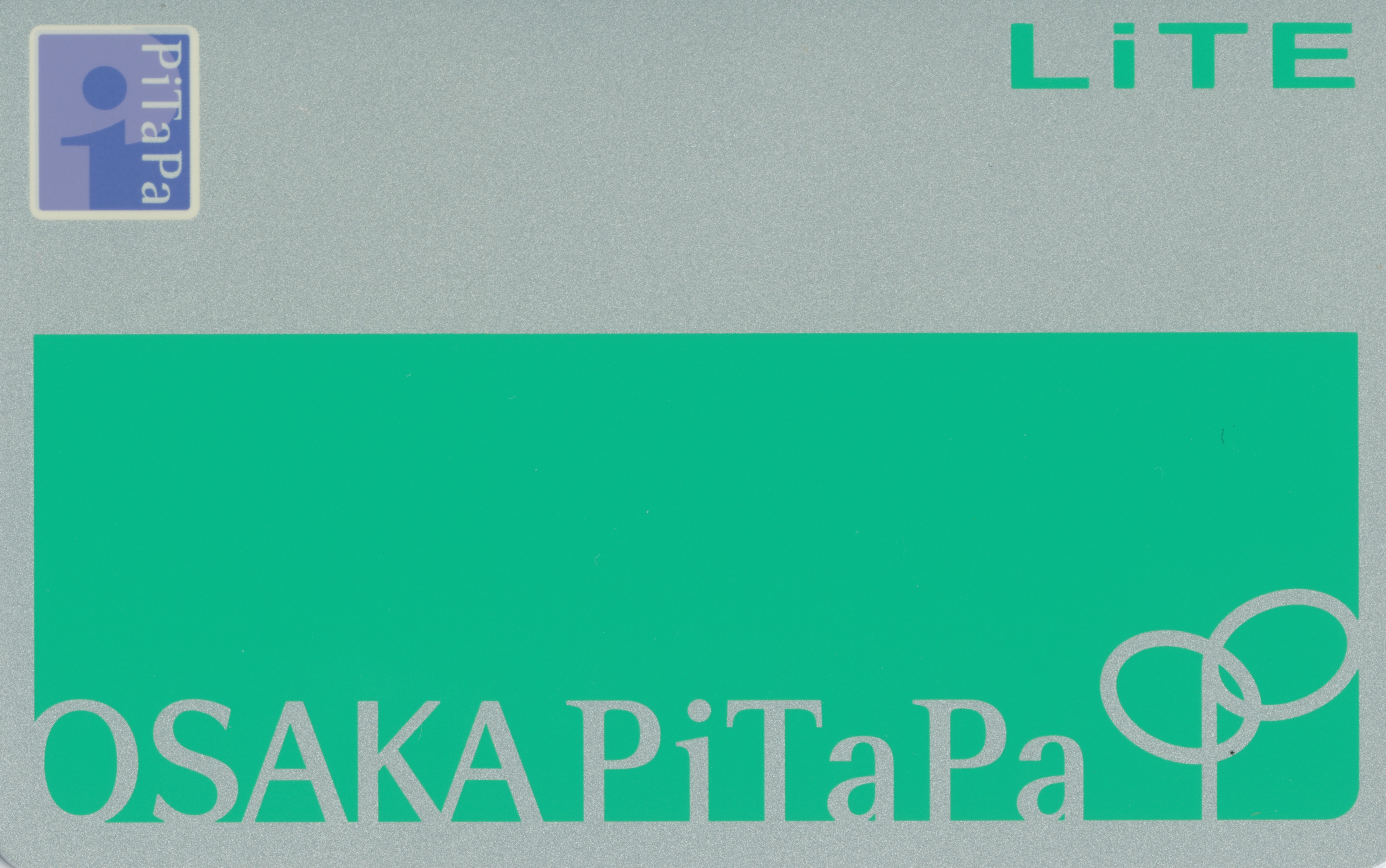 OSAKA PiTaPa LiTE Card